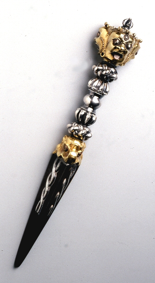 Originally the "phur-bu" was probably a simple peg used to secure tent ropes to the ground. No doubt the ability of the peg to pierce gave rise to the expression, "kilaya kilaya," (pierce, pierce) often a component of tantric mantras along with "han han," (destroy, destroy) or "maraya maraya," (kill, kill). The objects of destruction are, of course, enemies of the faith, evil forces, as well as psychic demons. This example, typically Tibetan in form, is particularly handsome and visually powerful. It has a three-sided iron blade adorned with silver intertwined serpents and a golden "makara" (mythical aquatic creature) guarding the joint of the hilt and the blade. Then, a silver thunderbolt with sixteen prongs has two knots of immutability at the two ends. The finial has three wrathful heads with open mouths and hanging tongues crowned by prongs of yet another thunderbolt. The square faces of the deity are particularly expressive, with their strongly molded features and a rich interplay of gilt, silver inlay, and lightly applied pigments.